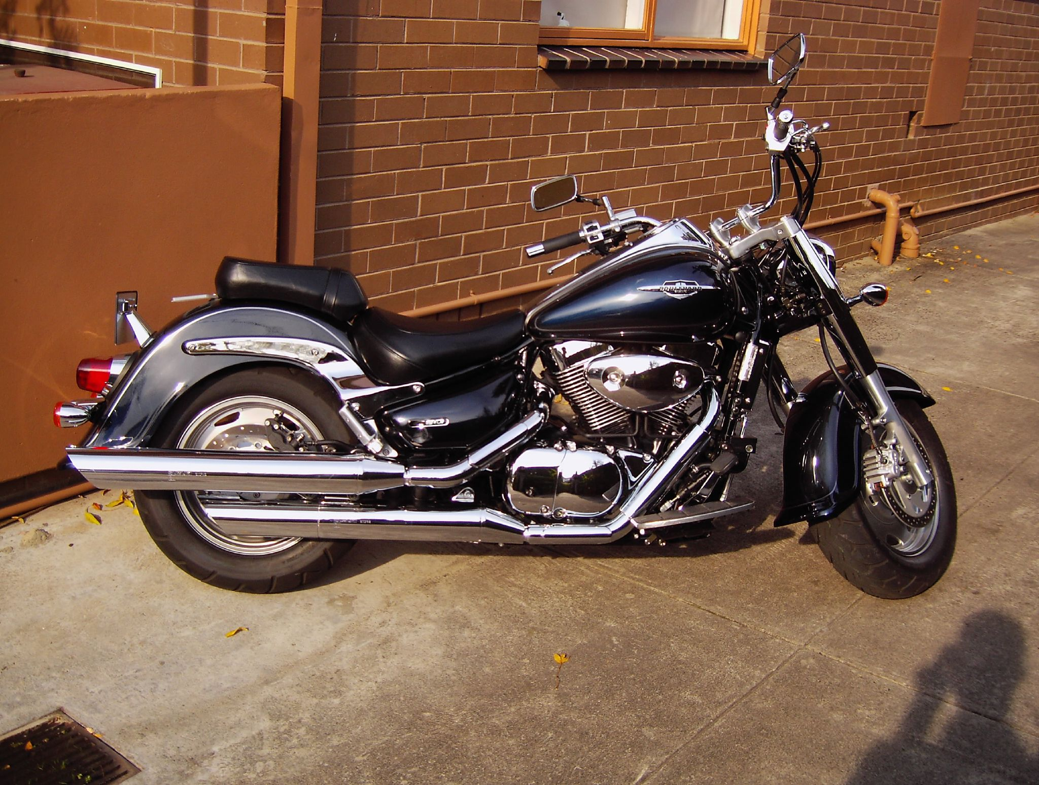 The new ride / Taken when I handed over the cash.